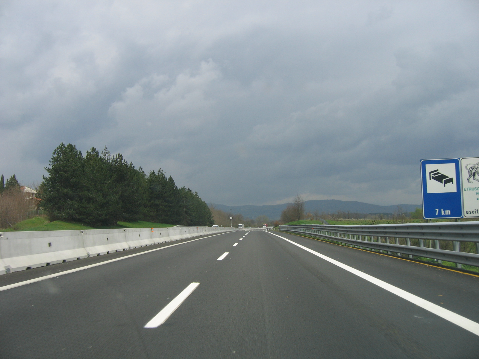 A1 highway, near Arezzo